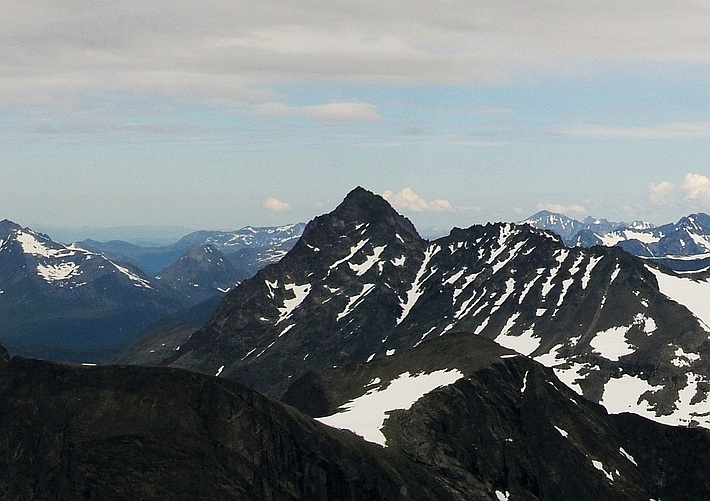 The mountain Vengetind (1852 m) seen from Breitinden (1797 m).